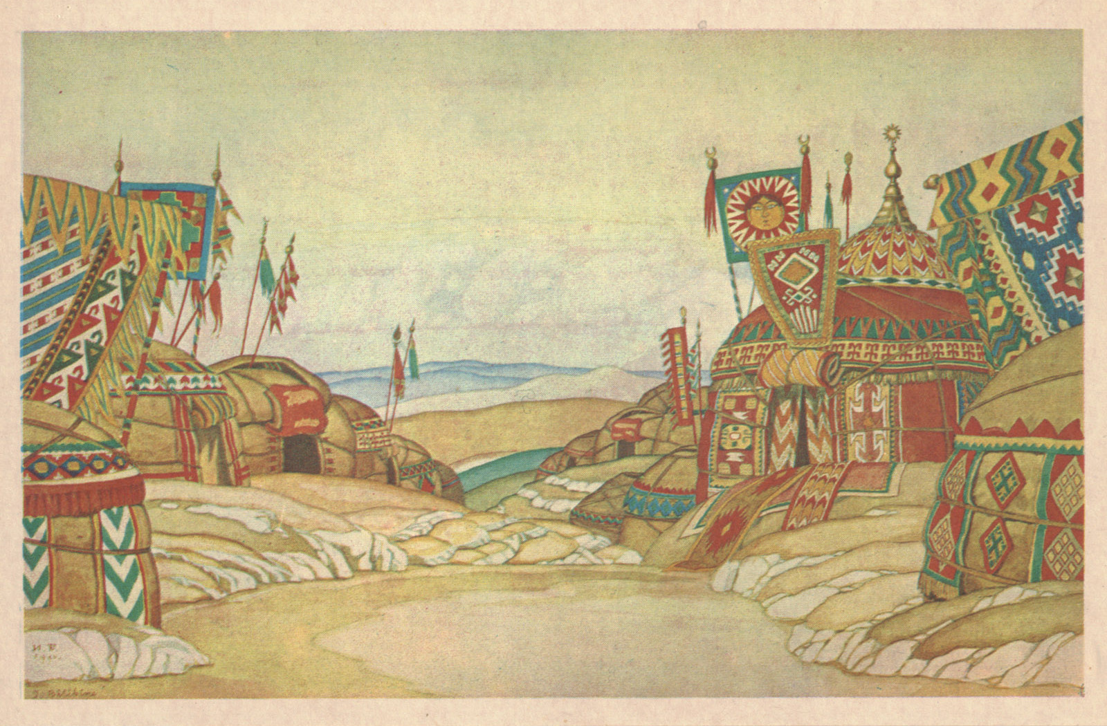 THE POLOVTSY CAMP. Stage-set design for Act Two of the opera "Prince Igor by Borodin. 1930